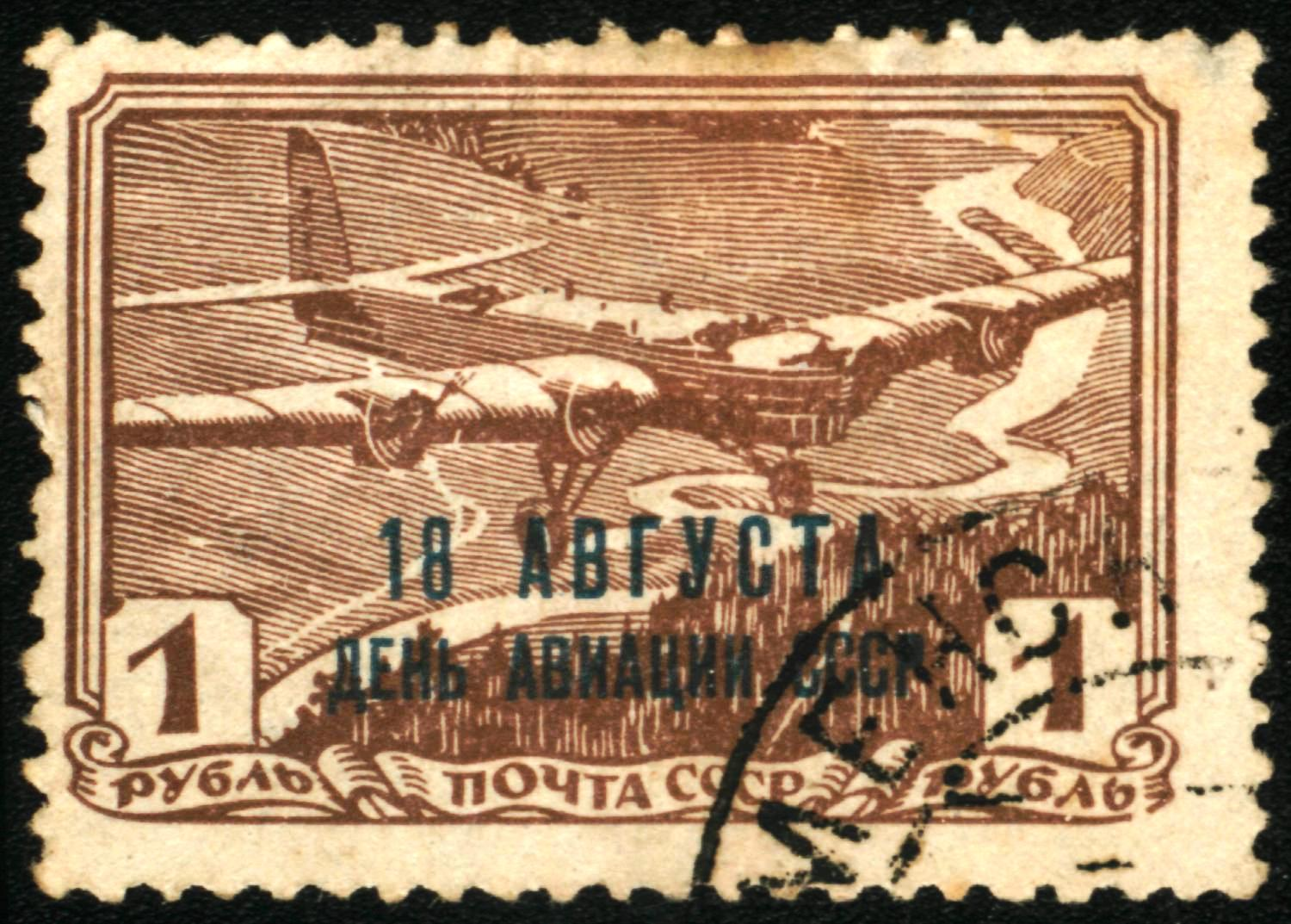 Soviet postage stamp, Tupolev TB-3, CPA 633, 1938. Overprinted in 1939 with commemoration of August 18th as a Day of the USSR Aviation, CPA 690.